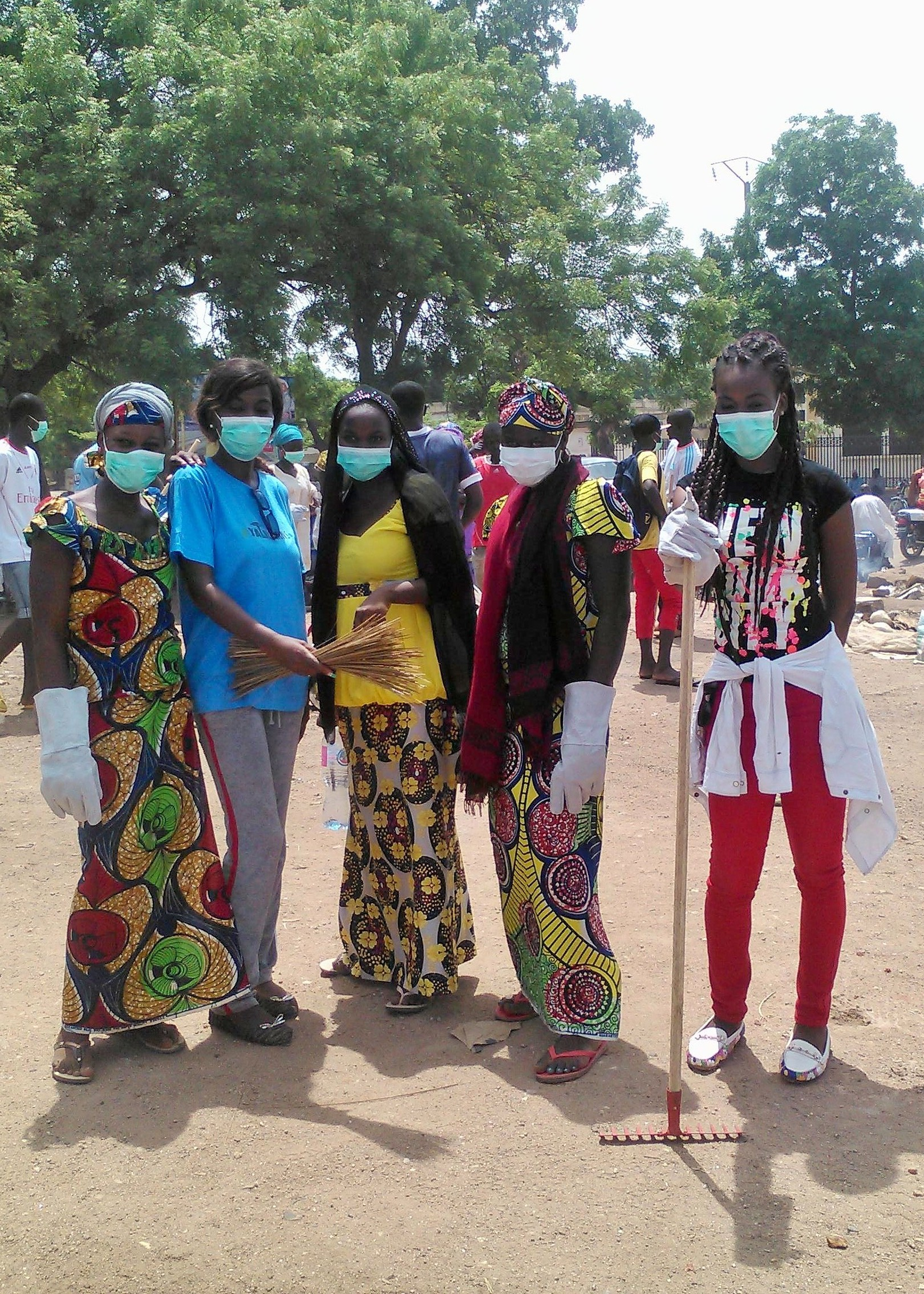 Women taking part in a Clean up campaign in Garoua Cameroon